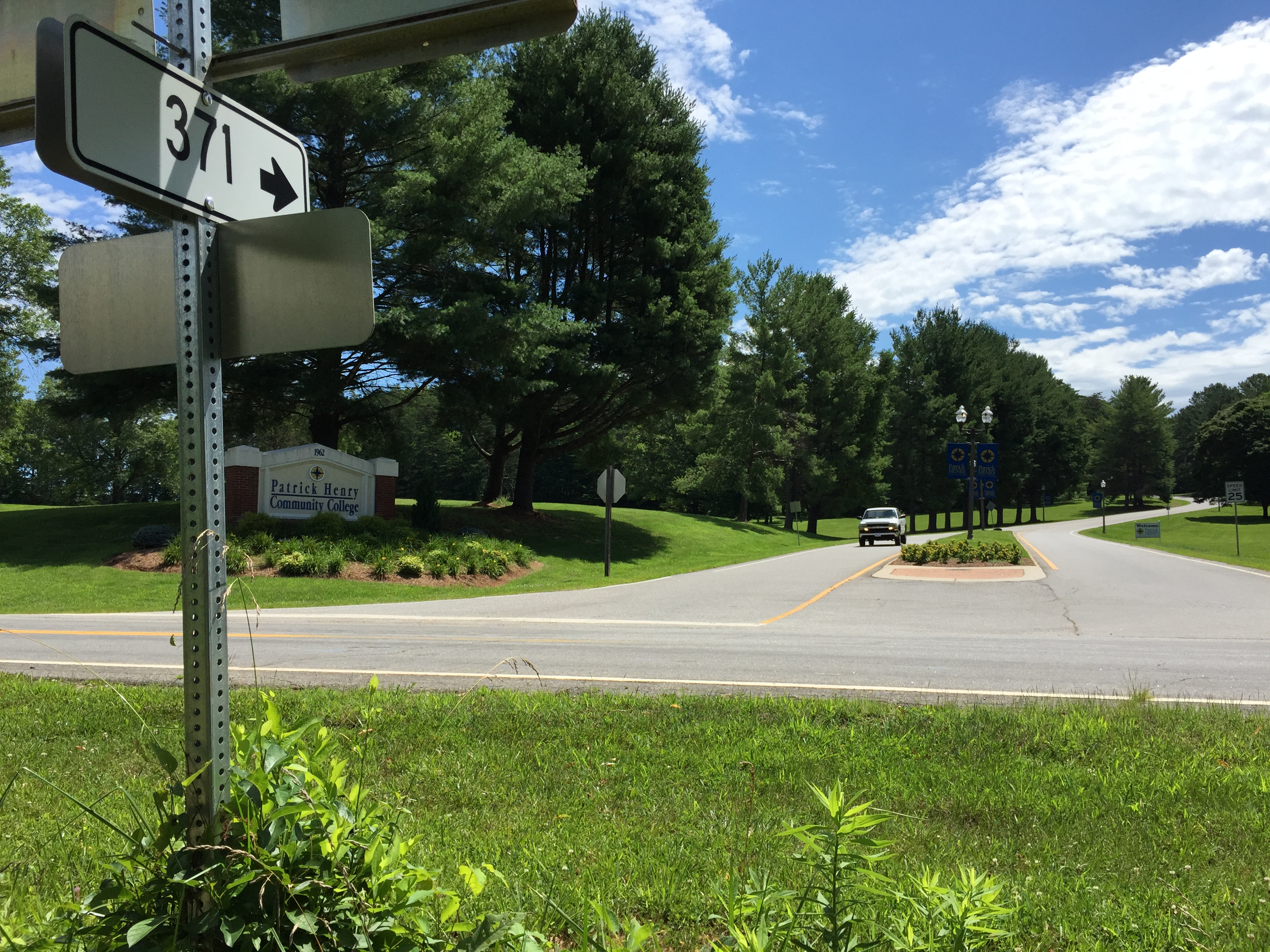 View east along Virginia State Route 371 (Patriot Avenue) at College Drive (Virginia State Secondary Route 714) just northeast of Collinsville in Henry County, Virginia